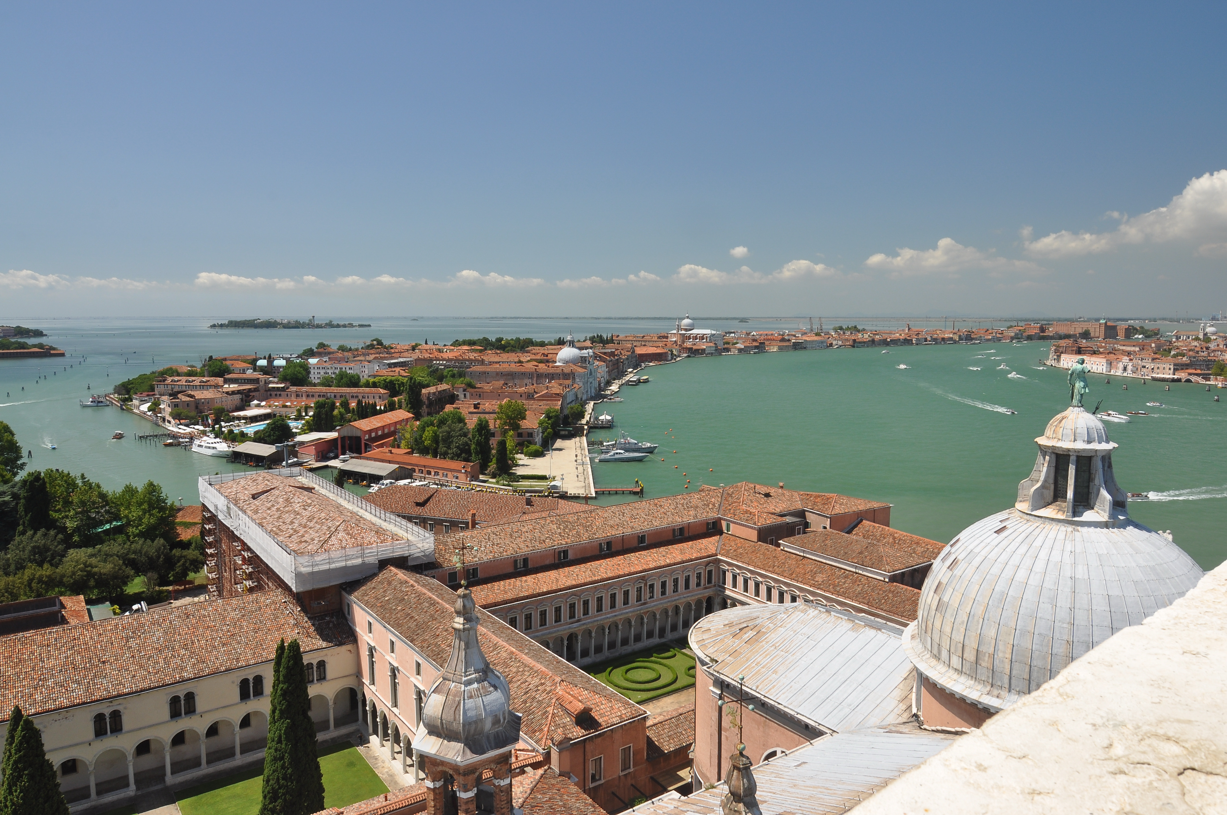 Giudecca, Venice, from the campanile of the Church of San Giorgio Maggiore in Italy.